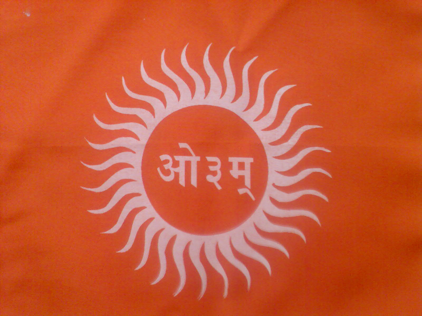 Aum is a symbol of Arya Samaj and Hindutva